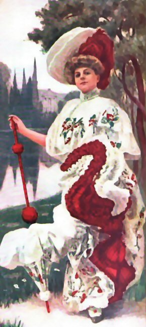 Actress Adele Ritchie